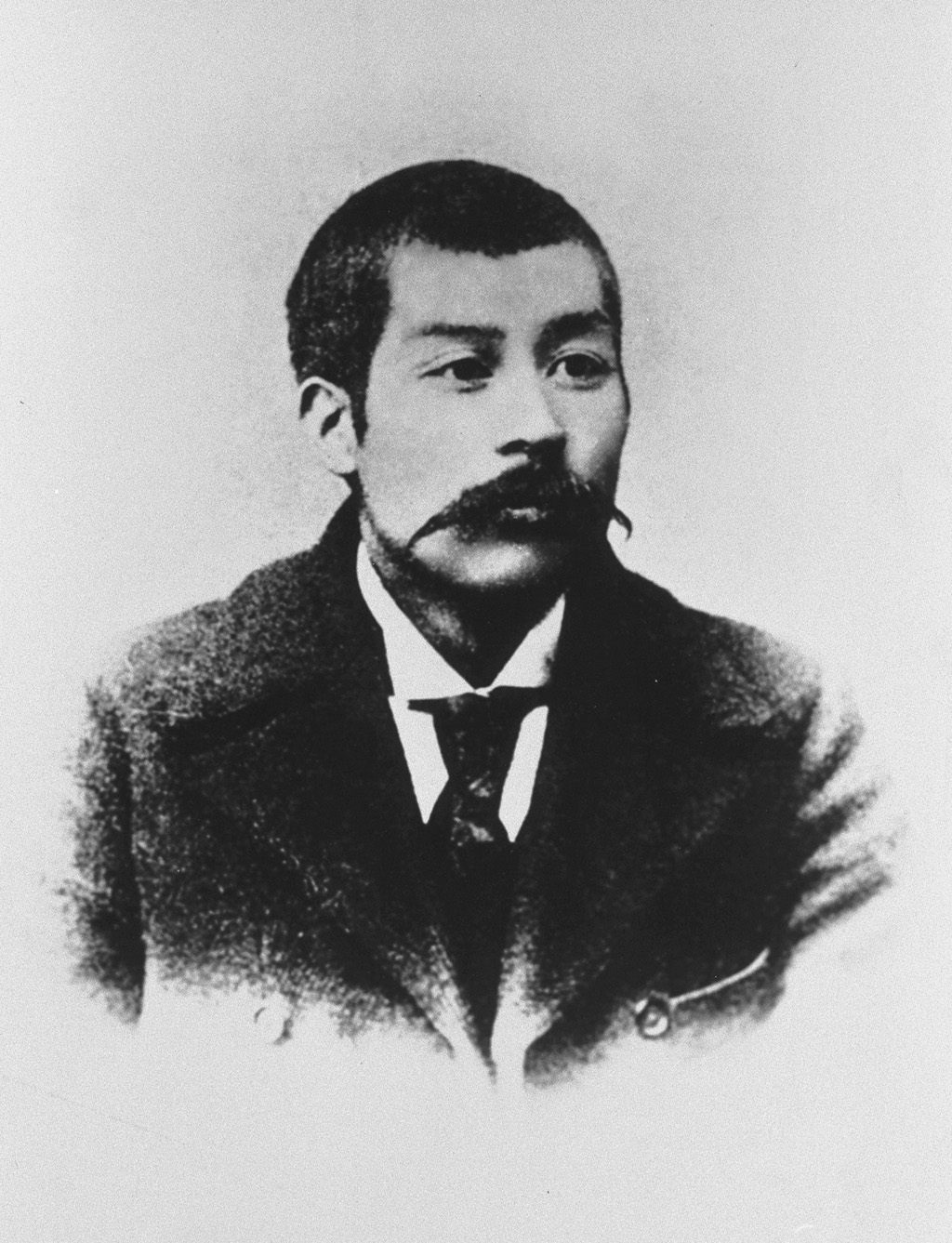 Portrait of Oki Teisuke (沖禎介, 1874 – 1904)